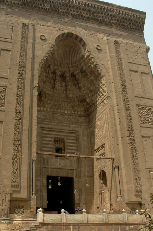 Mosque-Madrassa of Sultan Hassan. Cairo. Egypt